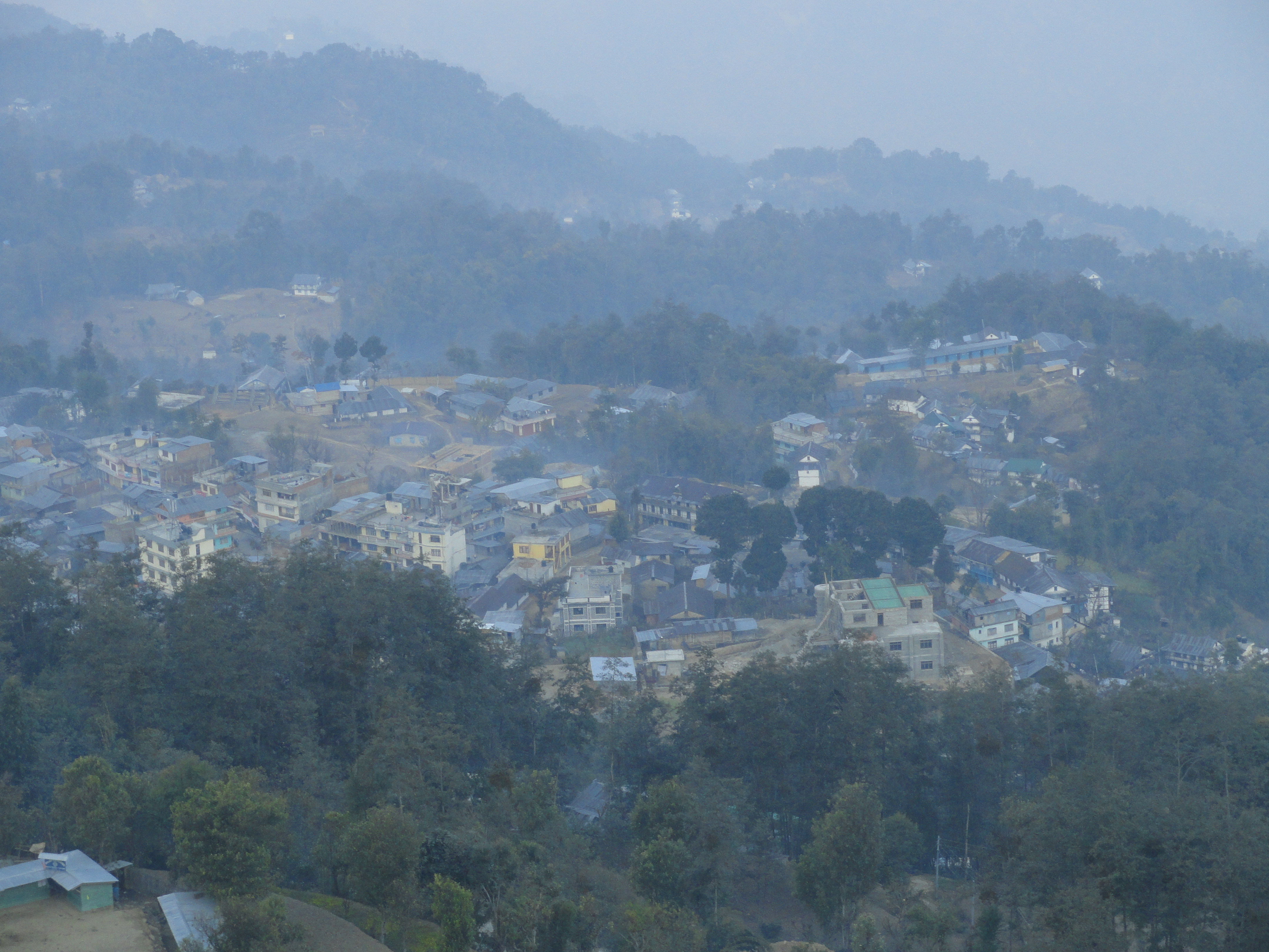 This is phungling bazaar.this is the headquarter of Taplejung district.